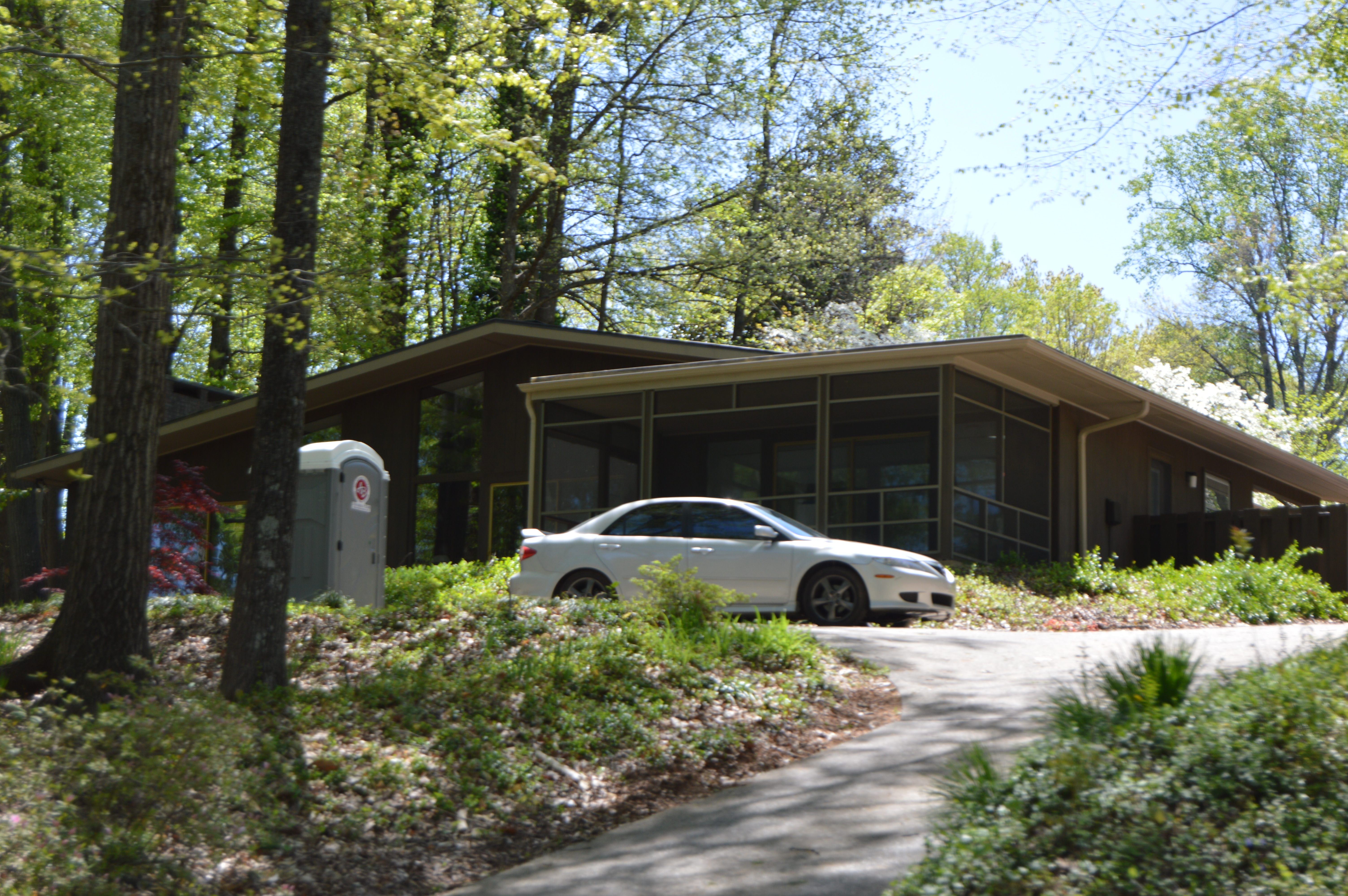 Street view of the James H. and Anne B. Willis House, located at 707 Blair Street in Greensboro, North Carolina, United States. Built in 1965, it is listed on the National Register of Historic Places.